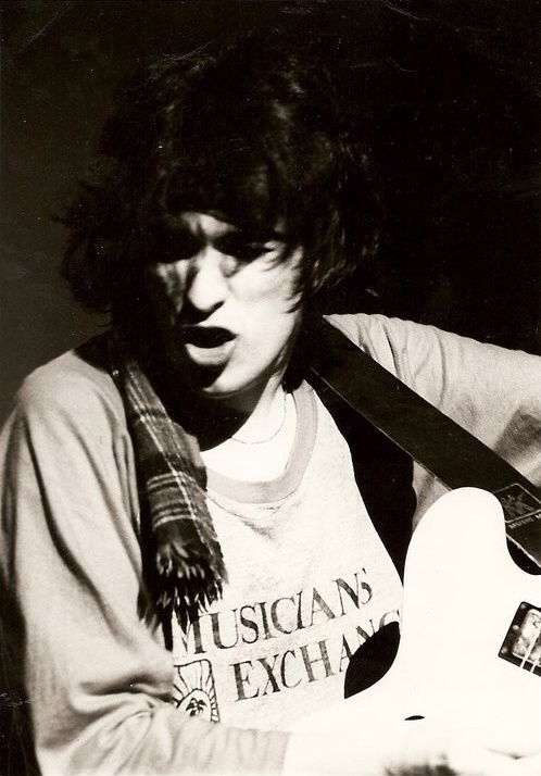 Billy Rankin onstage with Nazareth, St Louis MO, 1983.